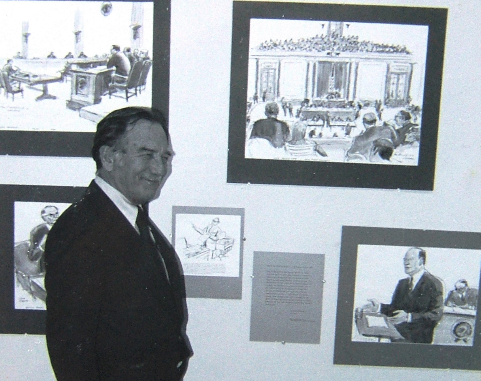 Leo Hershfield at show of his courtroom art